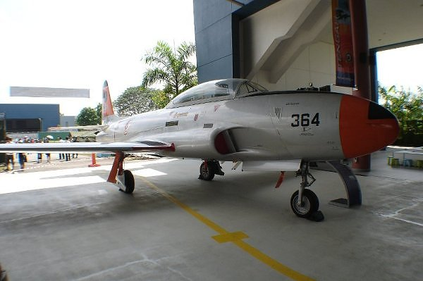 RSAF 2nd jet trainer in service - Lockheed T-33 Shooting Star (retired in 1984) with 2nd generation ying-yang styled roundels